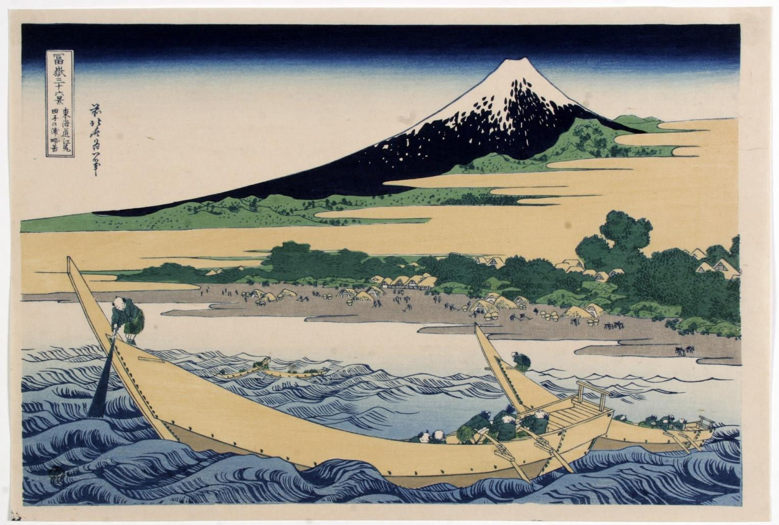 Katsushika Hokusai (1760-1849), The coast at Tago Bay (1829-1833). Collection of Japanese prints of Centre Céramique, Maastricht, the Netherlands